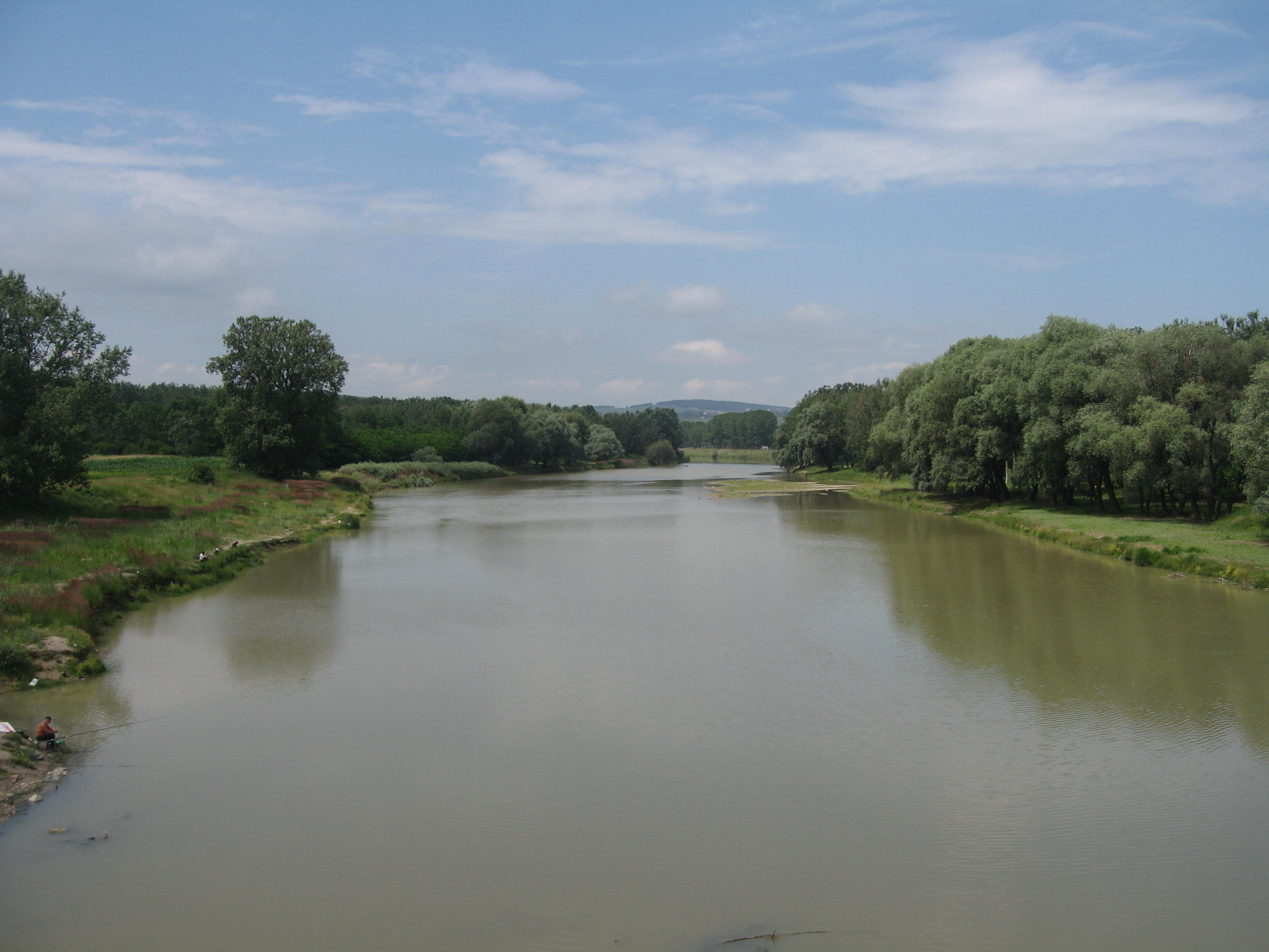 Suceava River.